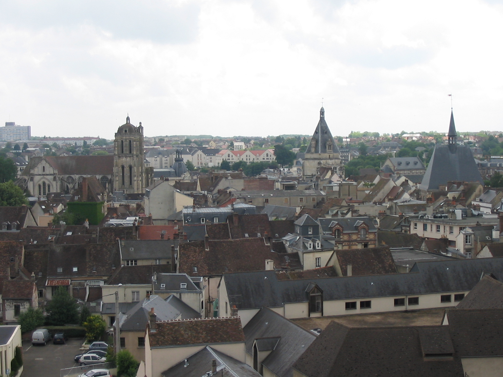 View at Dreux (Eure and Loir).